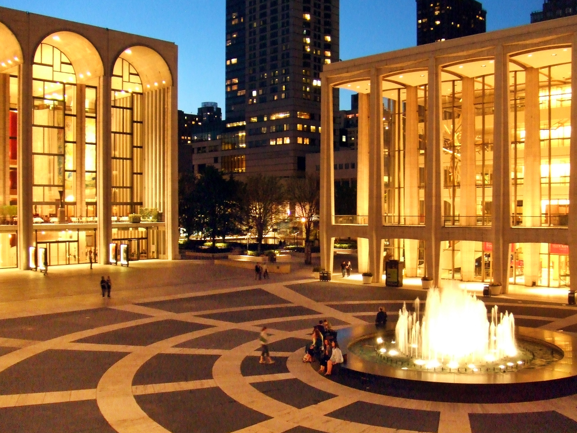 Lincoln Center, New York. June 7, 2007.